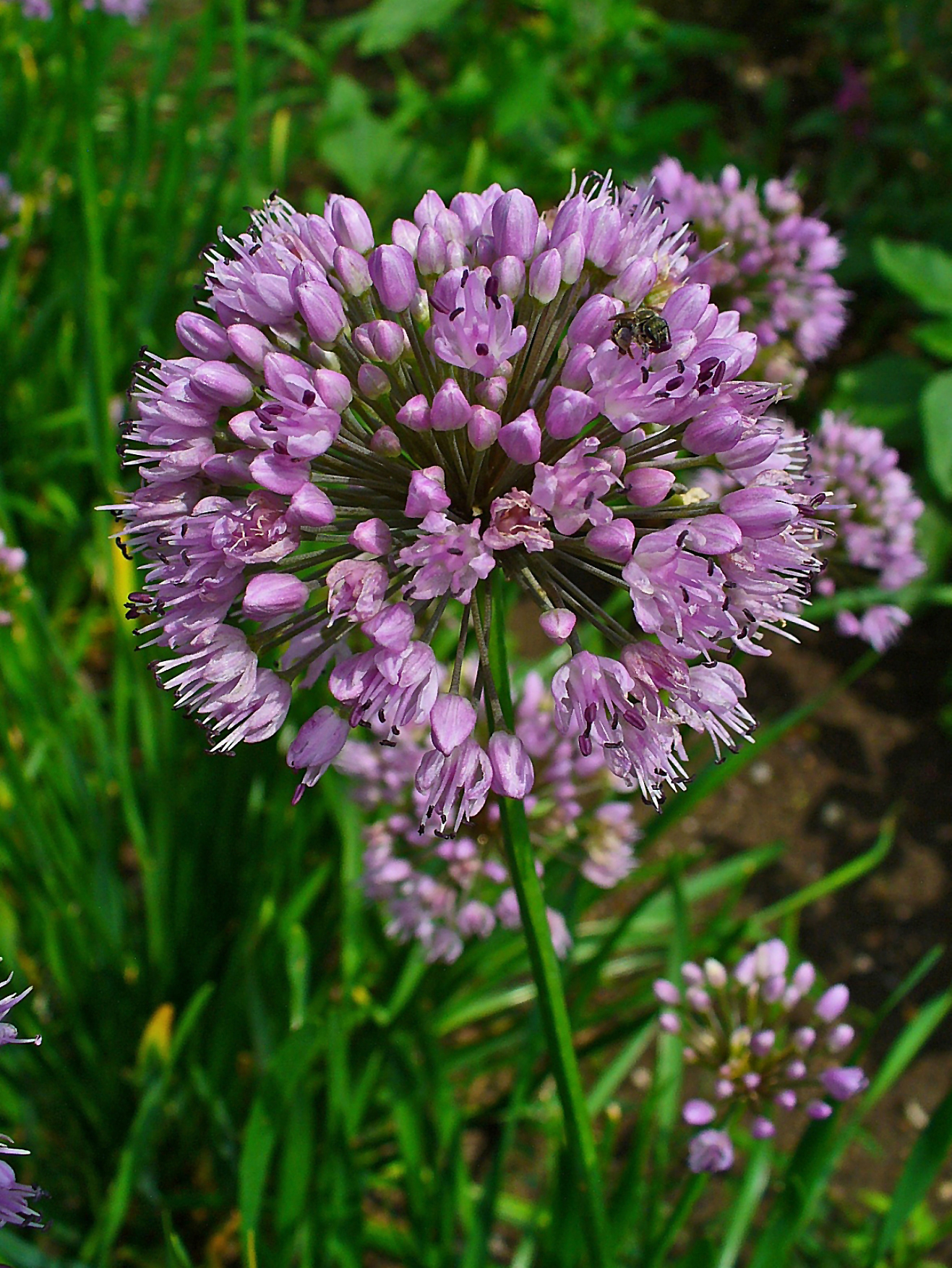 Allium lusitanicum, Alliaceae, Mountain Garlic, inflorescence; Stutensee, Germany.